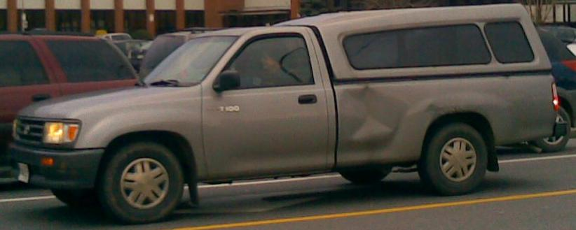 1993-1998 Toyota T100 photographed in Montreal, Quebec, Canada.